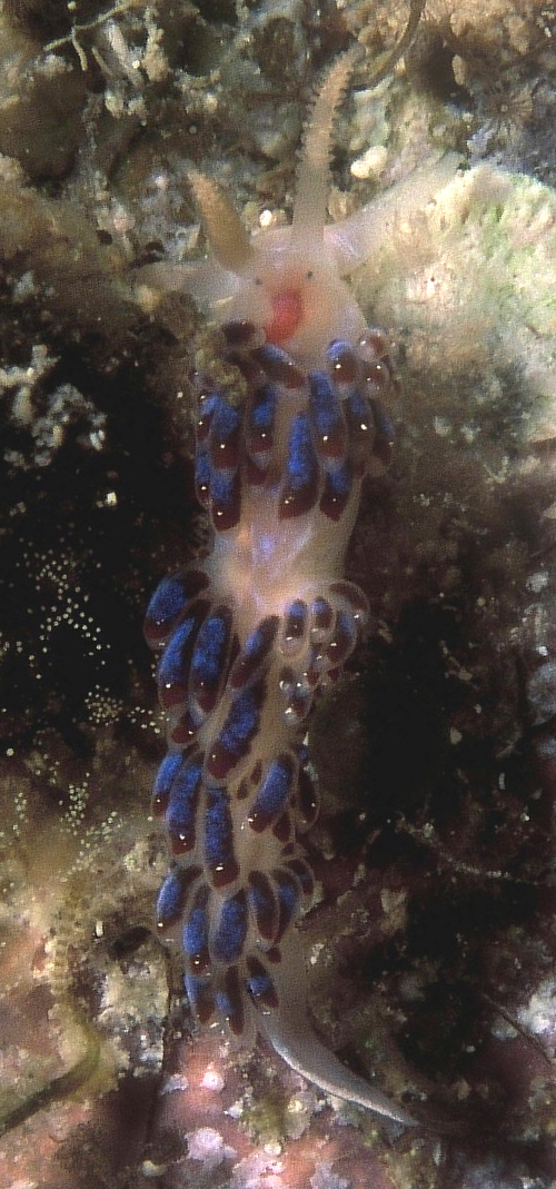 Facelina auriculata, synonym: Facelina coronata.